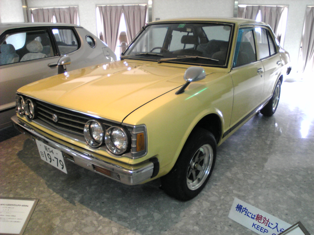 1979 Daihatsu Charmant 1300